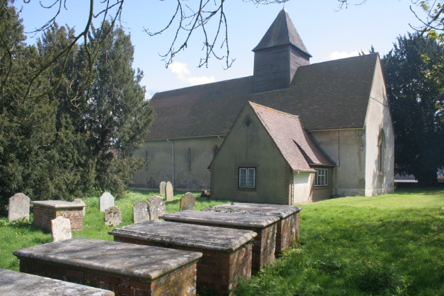 Long Sutton. All Saints Church, Long Sutton and Well